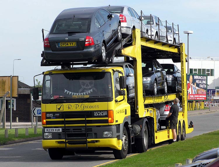 A car transporter prepares to offload Skoda Octavia cars at Cardiff Airport, Cardiff, Wales, UK. Leyland DAF 85 truck.